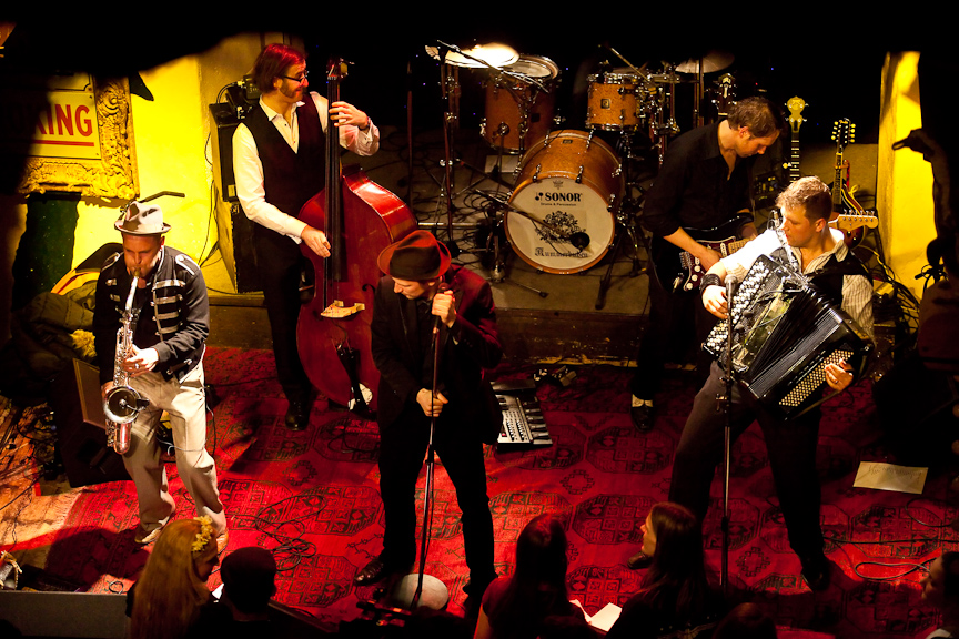 The Swiss band Kummerbuben, playing on stage in the Mühle Hunziken in Rubigen, Switzerland.